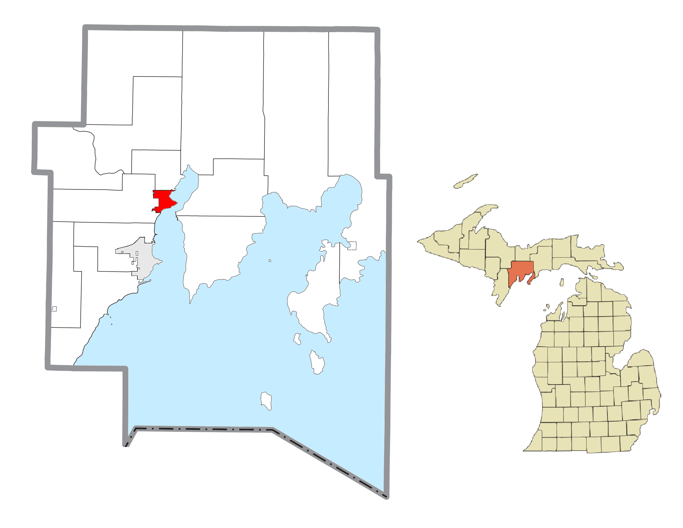 Gladstone, MI